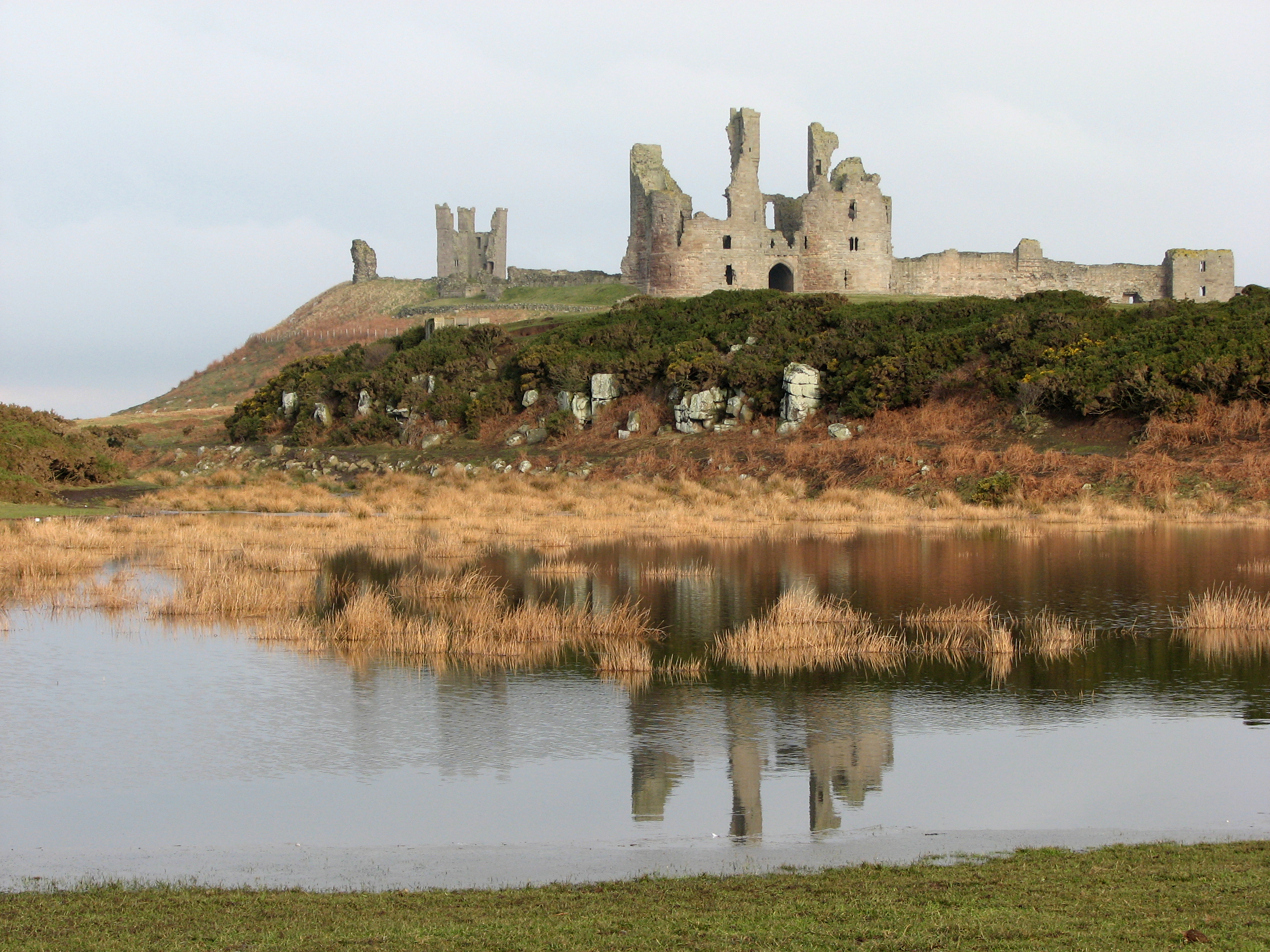 Dunstanburgh Castle I was lucky: ten minutes later a stiffer breeze was ruffling the water and the mirror reflection had disappeared.